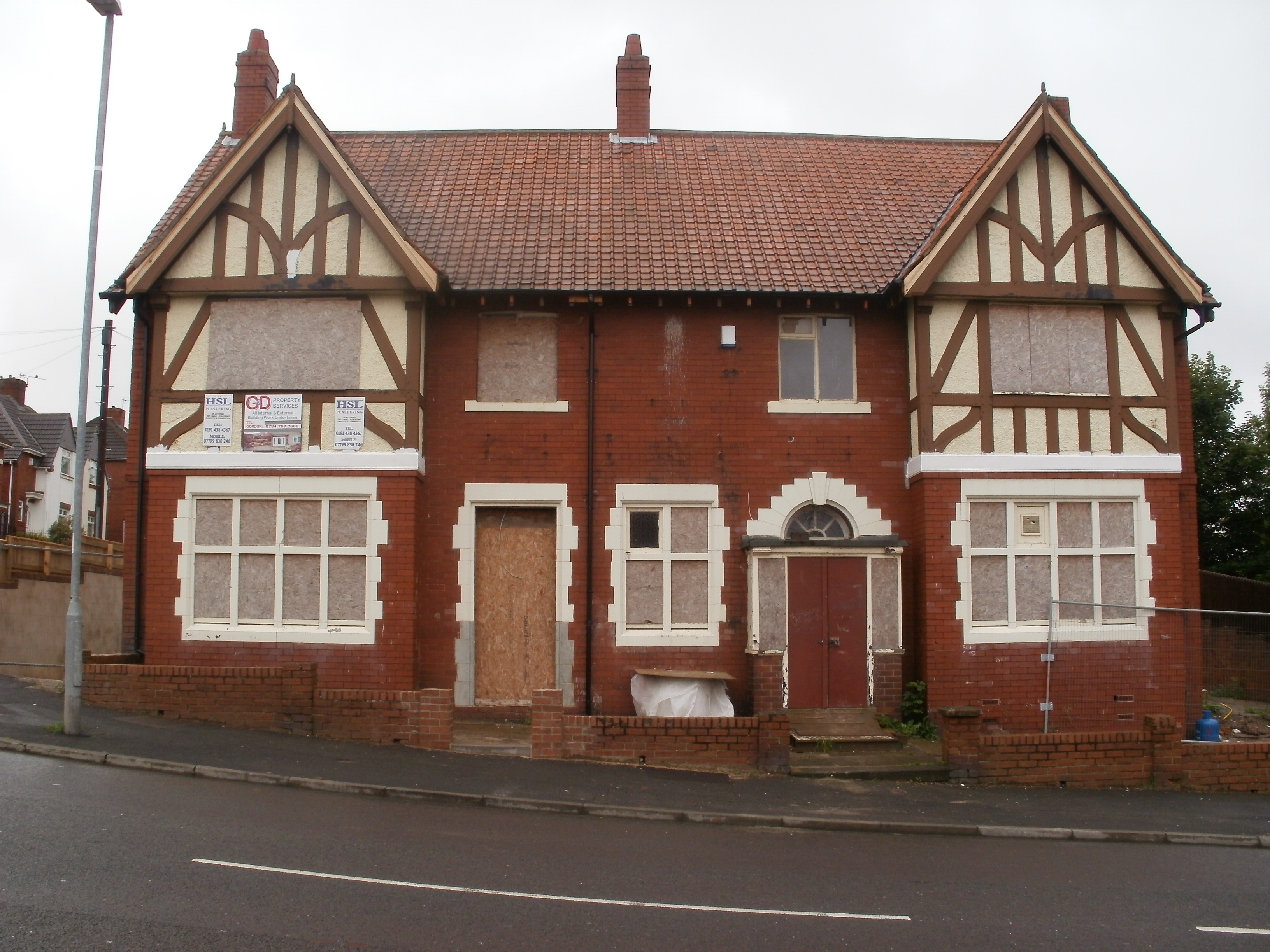 A remnant of carr Hill's potting past, the Old Brown Jug now stands derelict